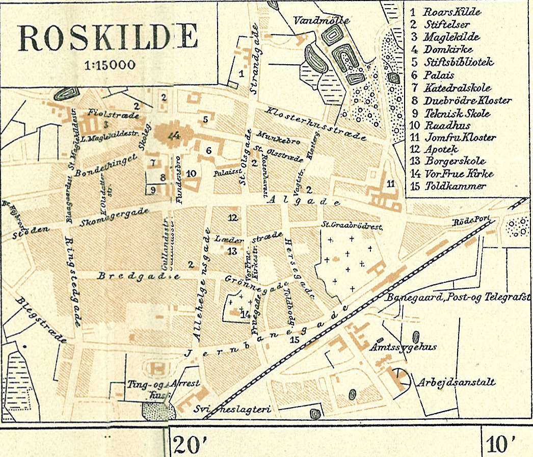 Map of Roskilde in Denmark